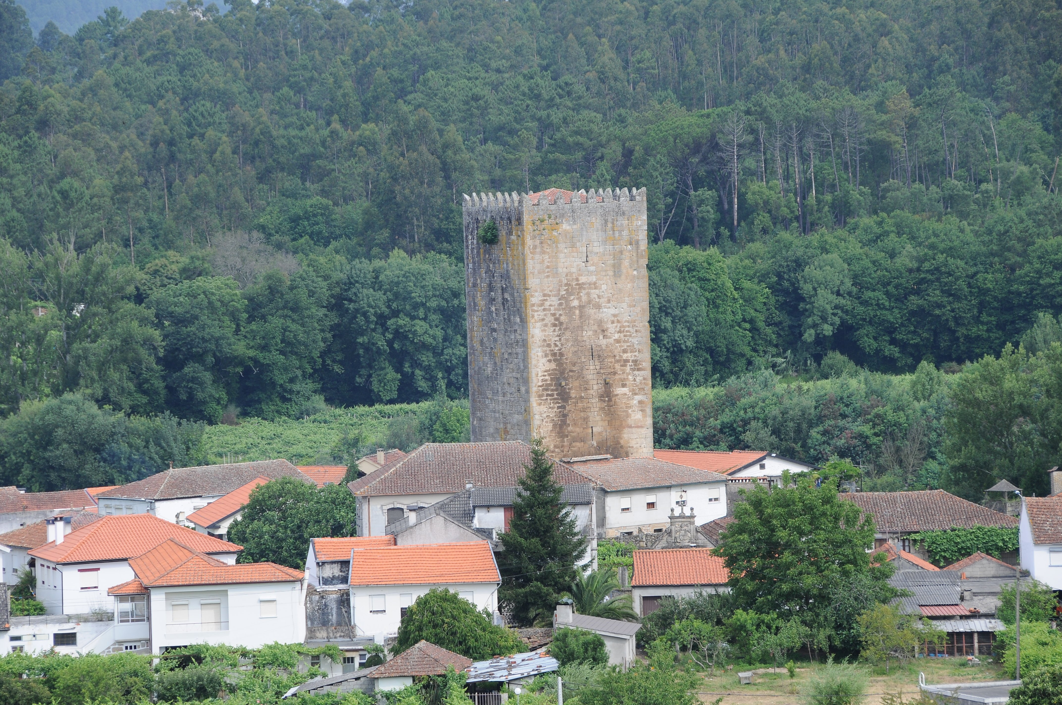 View of Lapela, in Monção Portugal